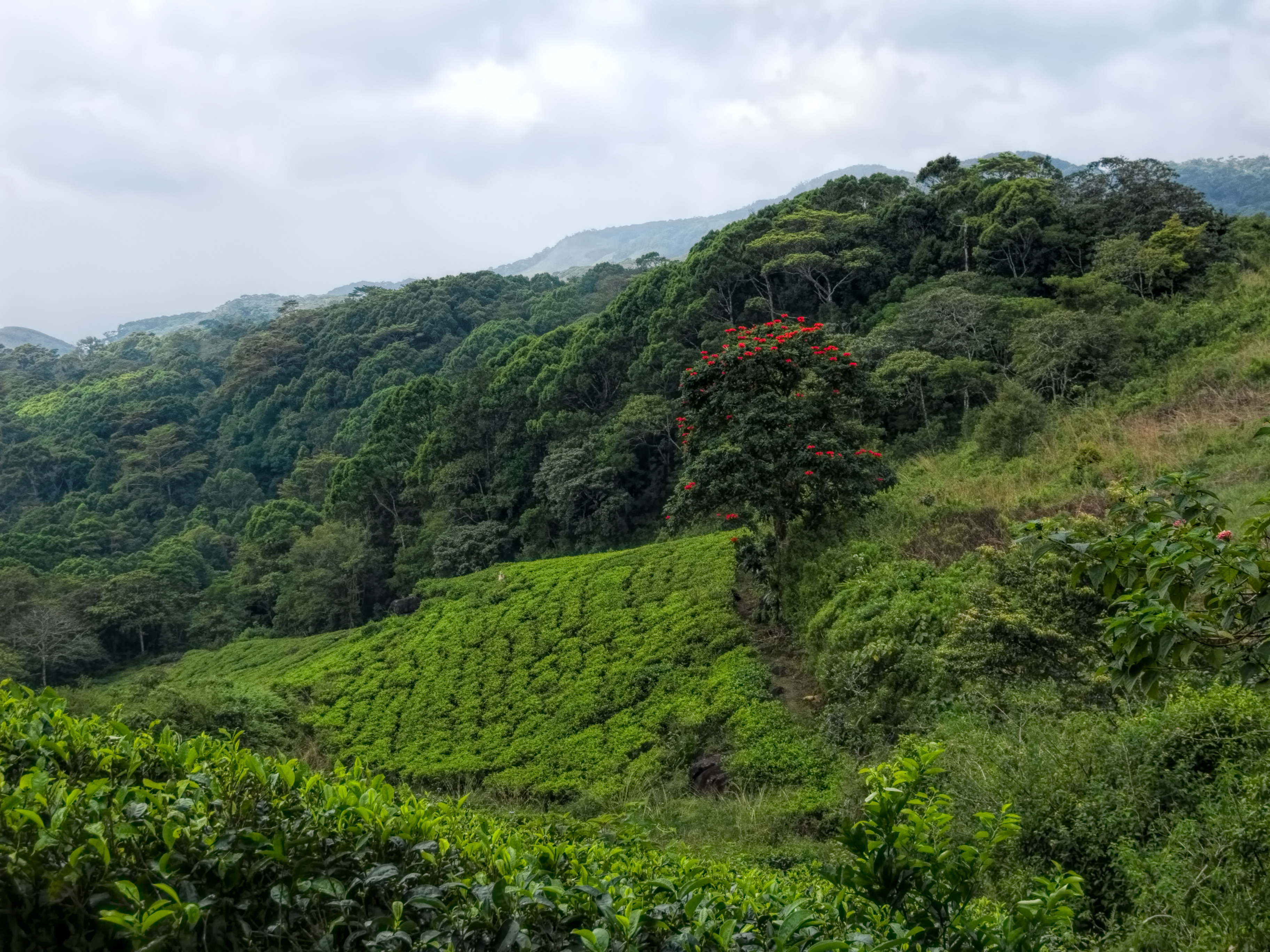 An African tulip tree (Spathodea campanulata) is blooming. It is an invasive species introduced to Sri Lanka by the British. In the tea field stretching downhill from the base of the tree can be seen a tea picker (the tiny white spot). On Google Earth: Tamil village 6°23'34.90"N, 80°36'16.37"E